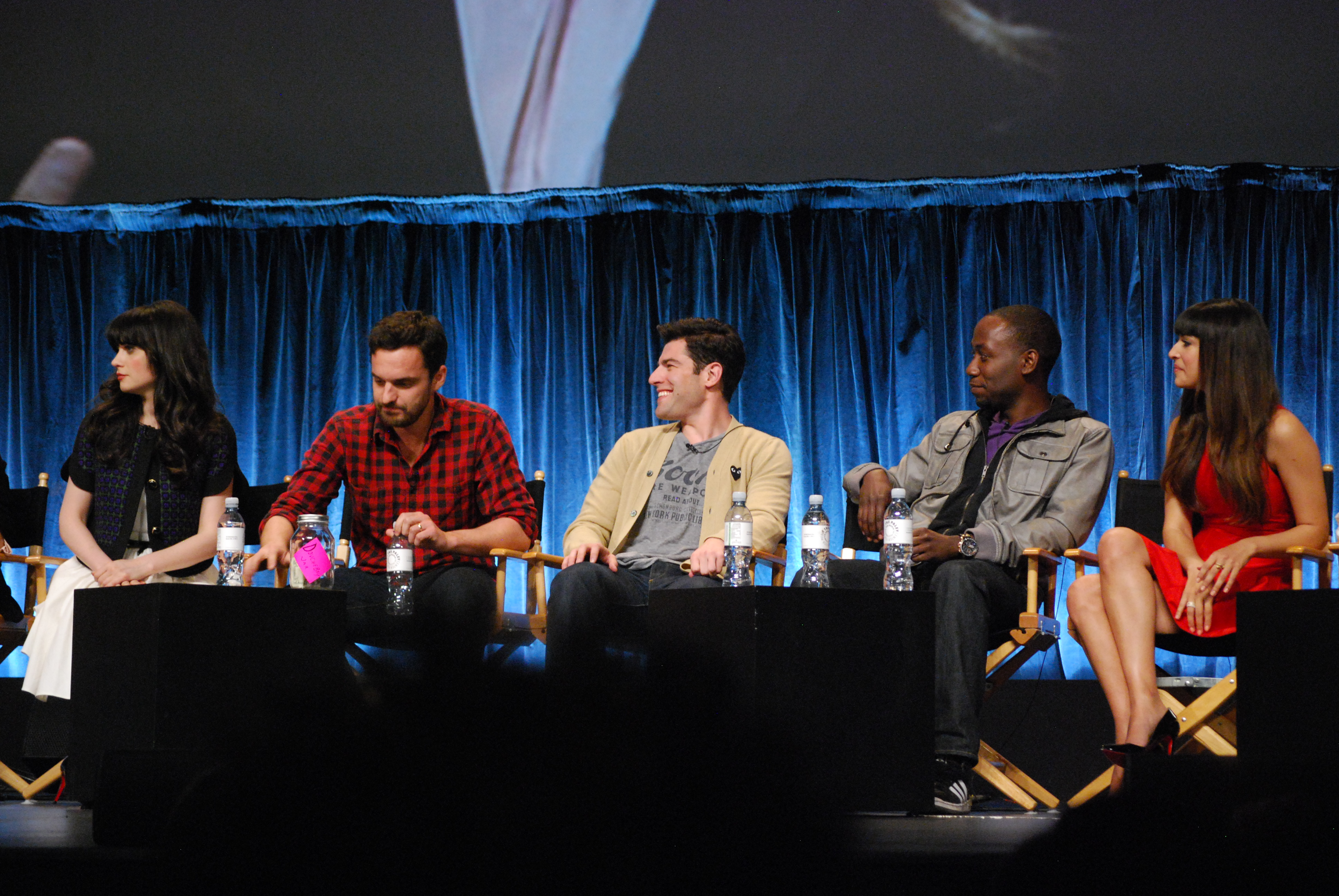 Zooey Deschanel, Jake Johnson, Max Greenfield, Lamorne Morris, Hannah Simone